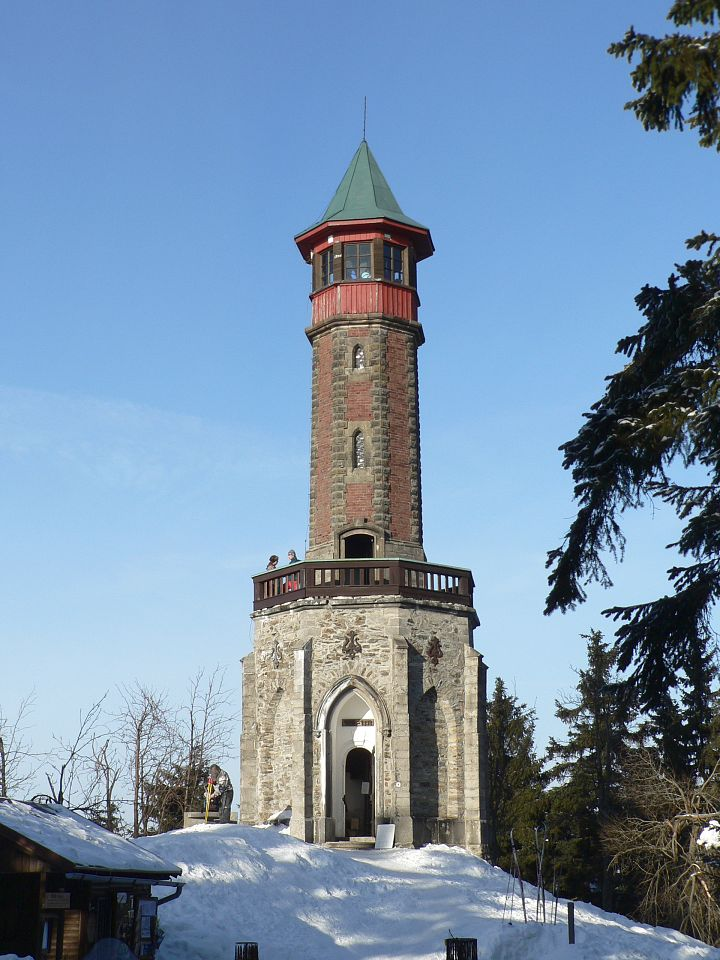 Štěpánka lookout tower, Krkonoše Mountains, Czech Republic